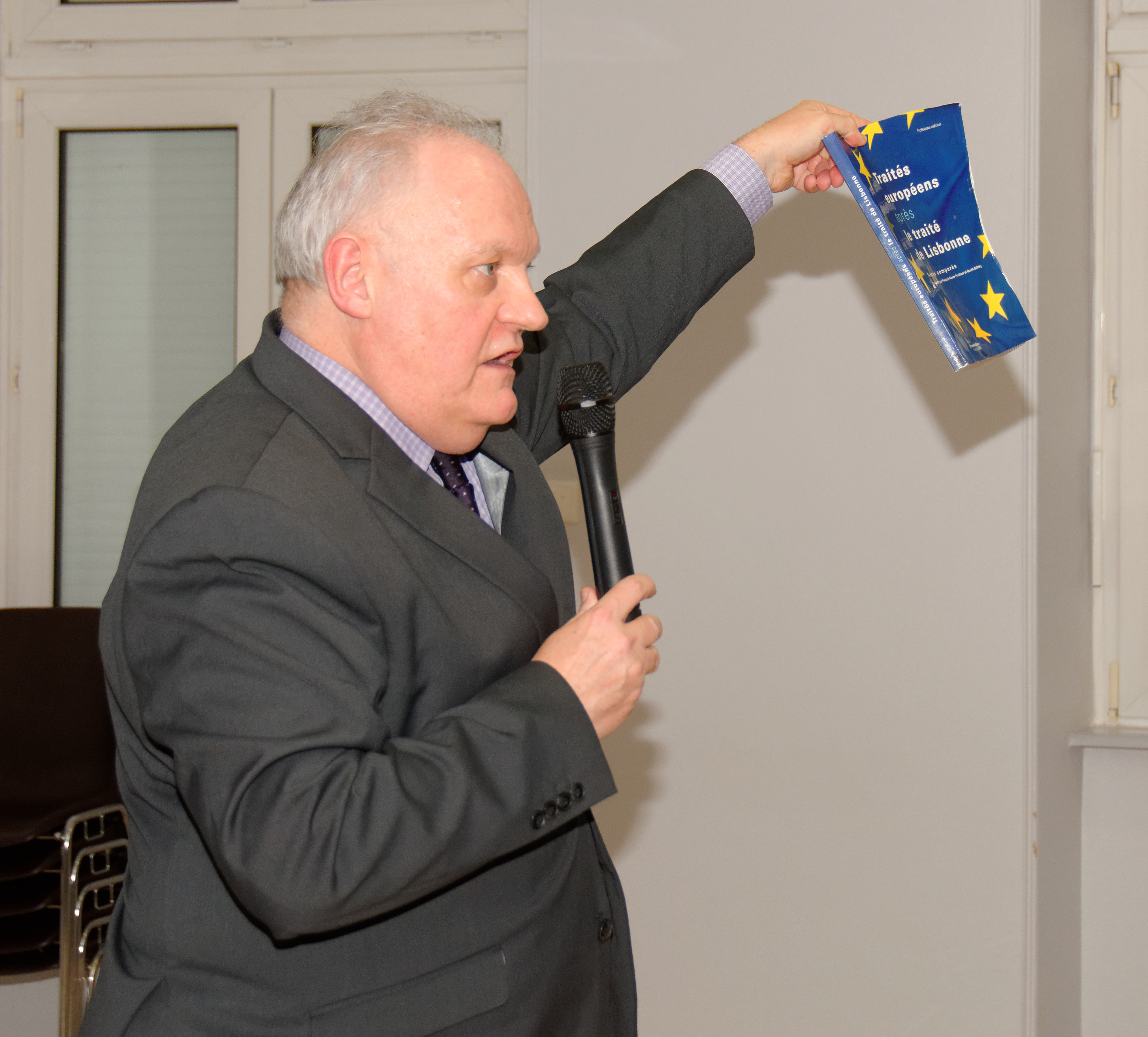 Personality rights warningAlthough this work is freely licensed or in the public domain, the person(s) shown may have rights that legally restrict certain re-uses unless those depicted consent to such uses. In these cases, a model release or other evidence of consent could protect you from infringement claims.